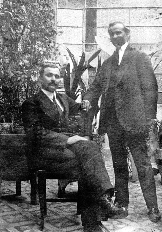 Ferrarese Brothers, Enrico and Guido Source: Family collection. I own the rights to this picture. Date: 1920's